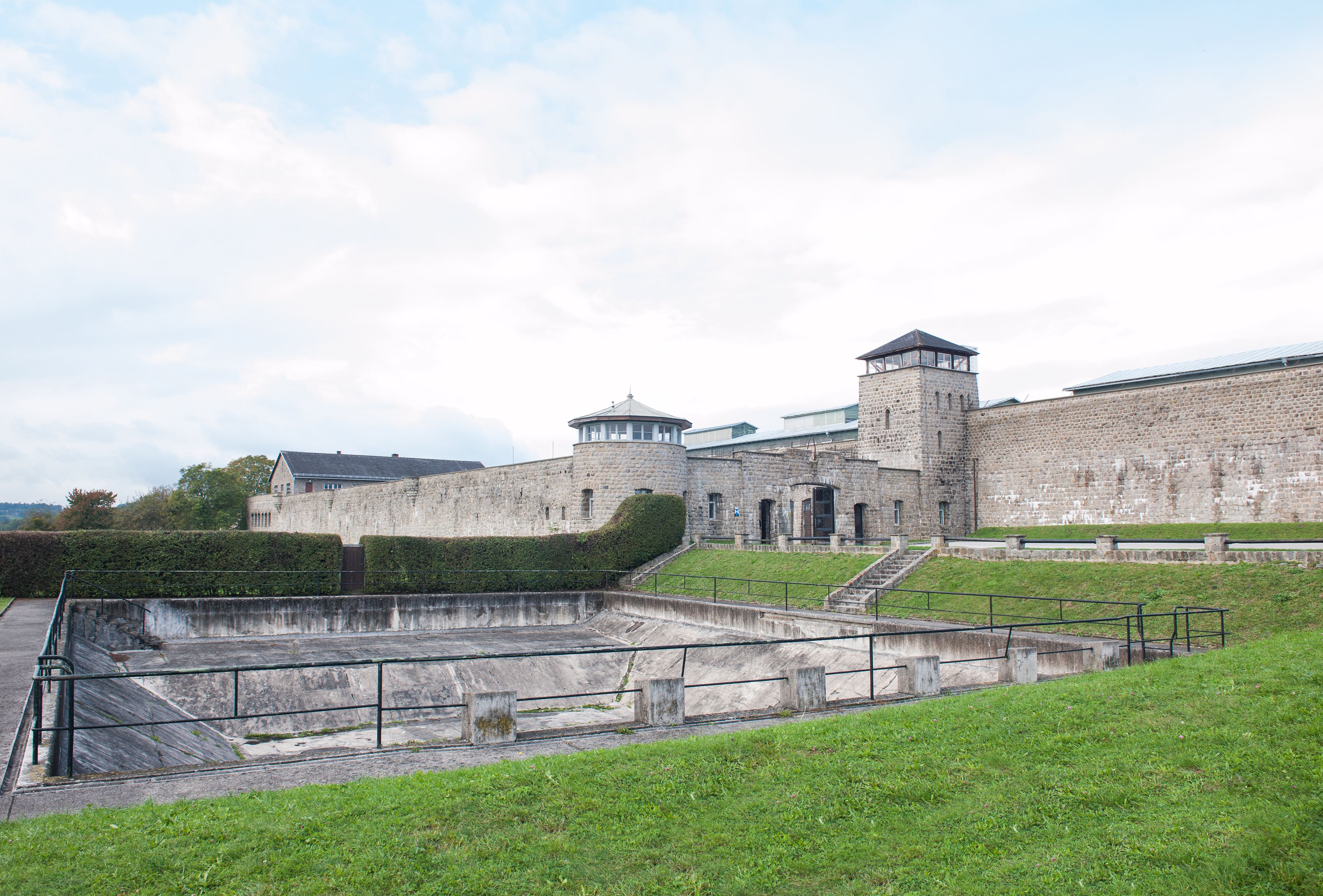 Mauthausen Memorial Dieses Bild wurde anlässlich des österreichischen Tags des Denkmals 2016 in Oberösterreich eingereicht.